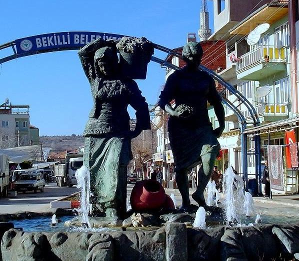 Statue of young women harvesting grapes in Bekilli, Denizli Province, Turkey